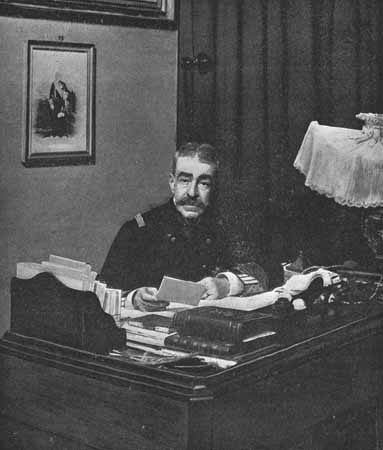 Segismundo Bermejo, Spanish Minister of the Navy. Photograph by Christian Franzen.[1]